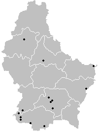 A map of cantons of Luxembourg after mergers of 2006-01-01, with locations of teams in the Luxembourg National Division in season 2006-07 marked.